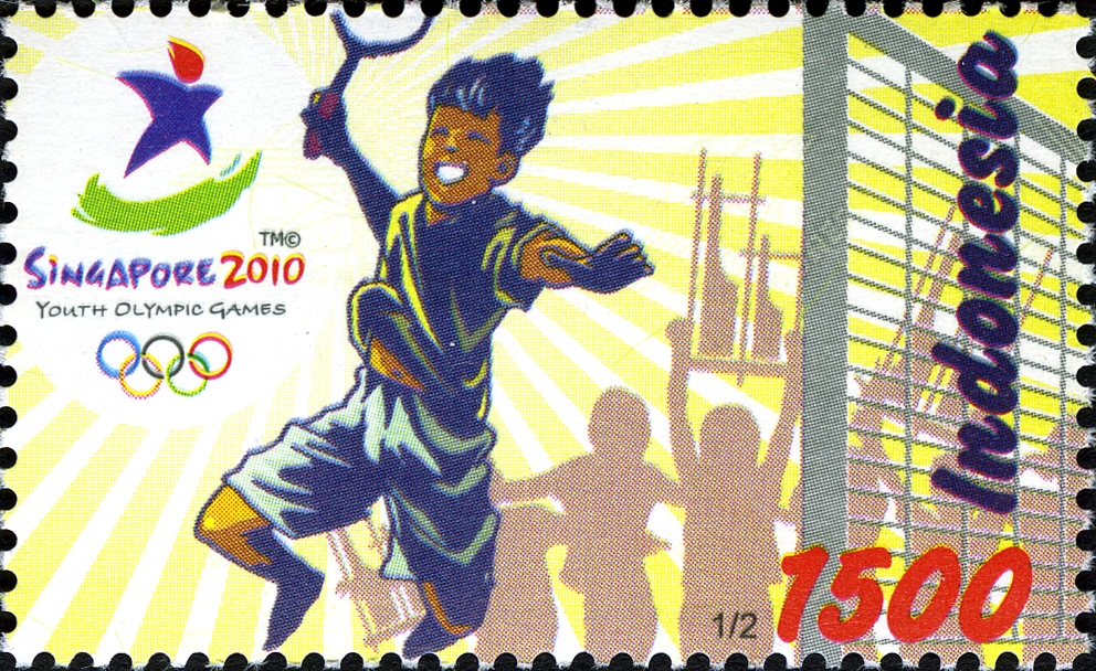 Stamps of Indonesia